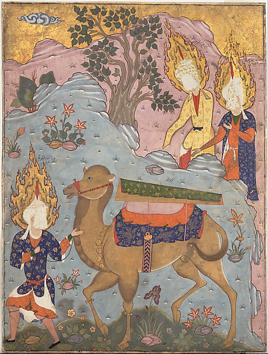 Folio from a manuscript of the Falnama (Book of Omens), an illustrated divinatory book. It depicts 'Ali, the first Shi'i imam, shown with a face veil and a flaming halo. He leads a camel with a coffin while two other men, his sons Hasan and Husain, watch from behind a hillside. According to Anatolian mystical thought, Imam 'Ali not only predicted his own death but also told his two sons that when he died, a veiled man would carry his coffin away on a camel for burial. He cautioned them not to question the man. When 'Ali’s prediction came true, Hasan and Husain could not resist asking the man’s identity and discovered that he was in fact their father, who was carrying his own body to the grave.